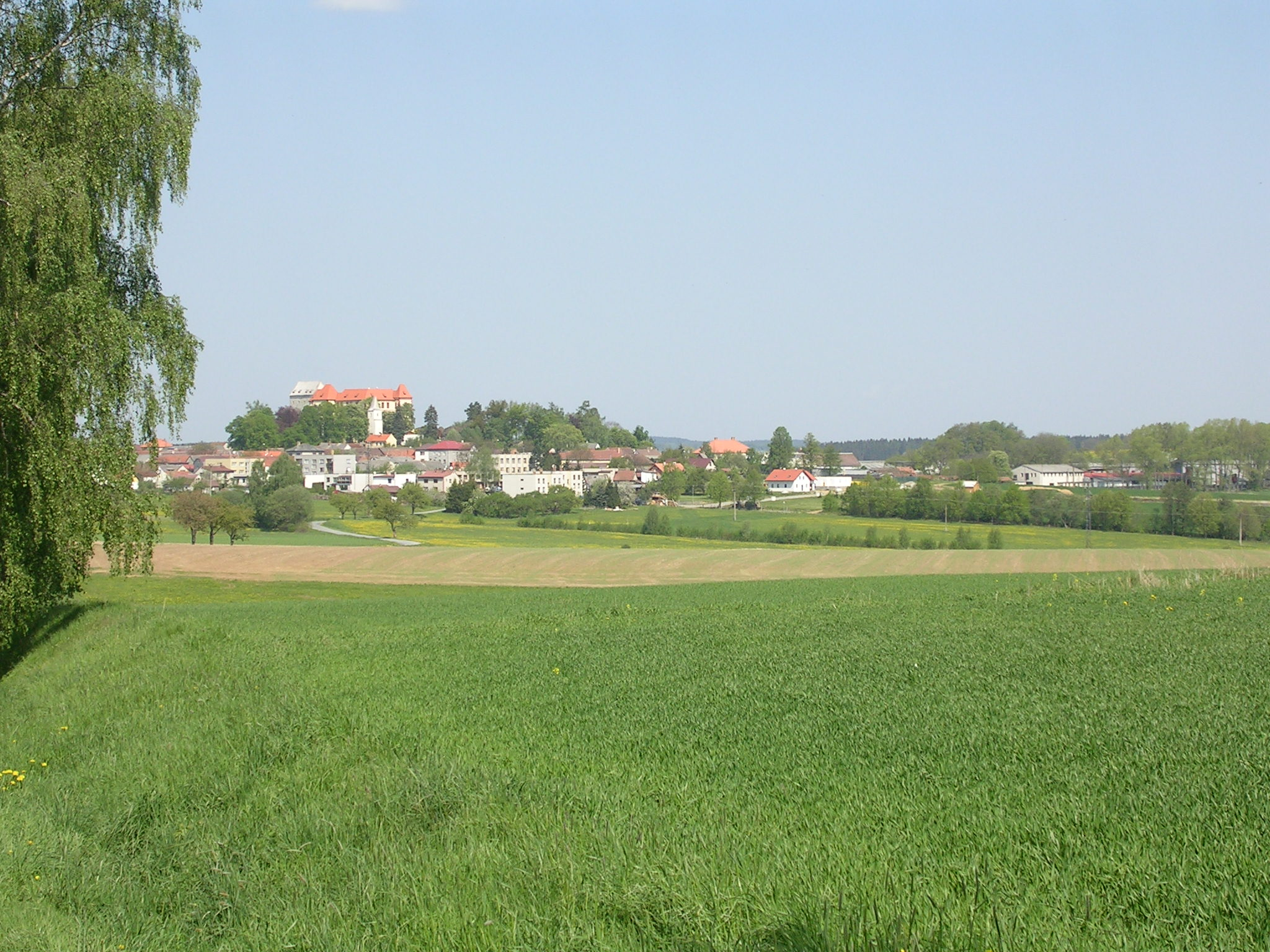 Kámen, Vysočina Region, the Czech Republic.